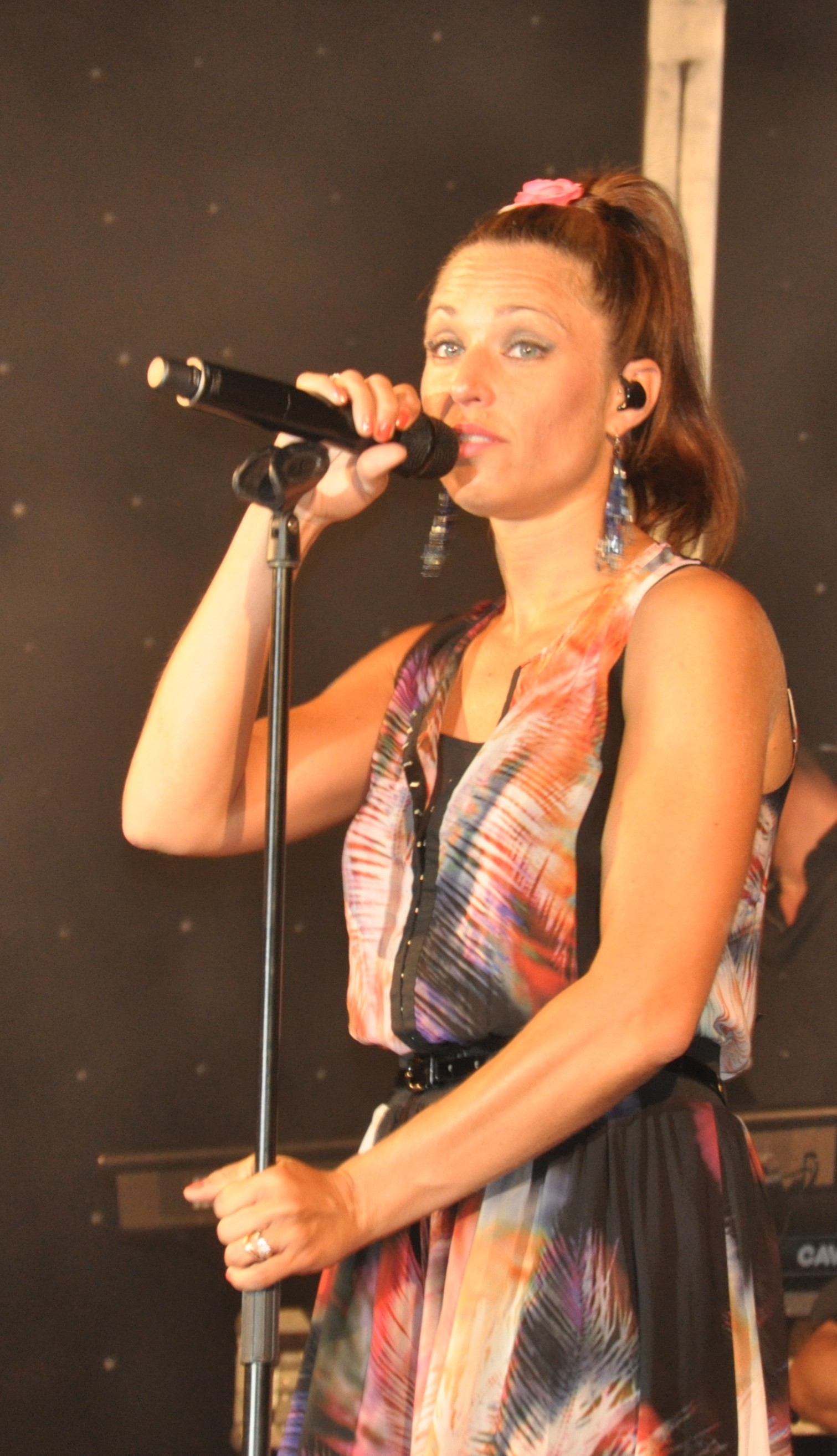 Natasha St-Pier during a concert in Cannes.